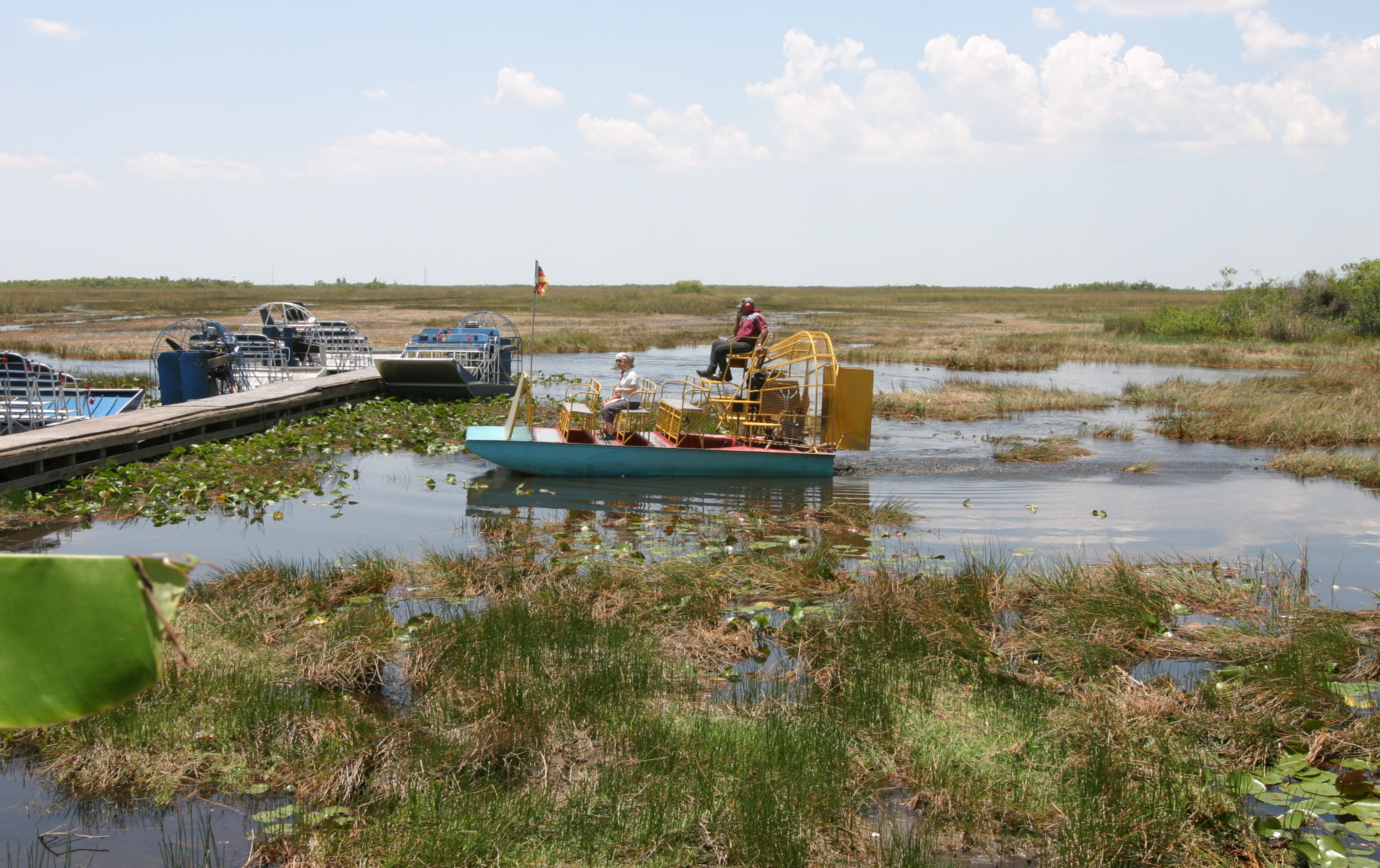 Airboat tours at the Florida Everglades